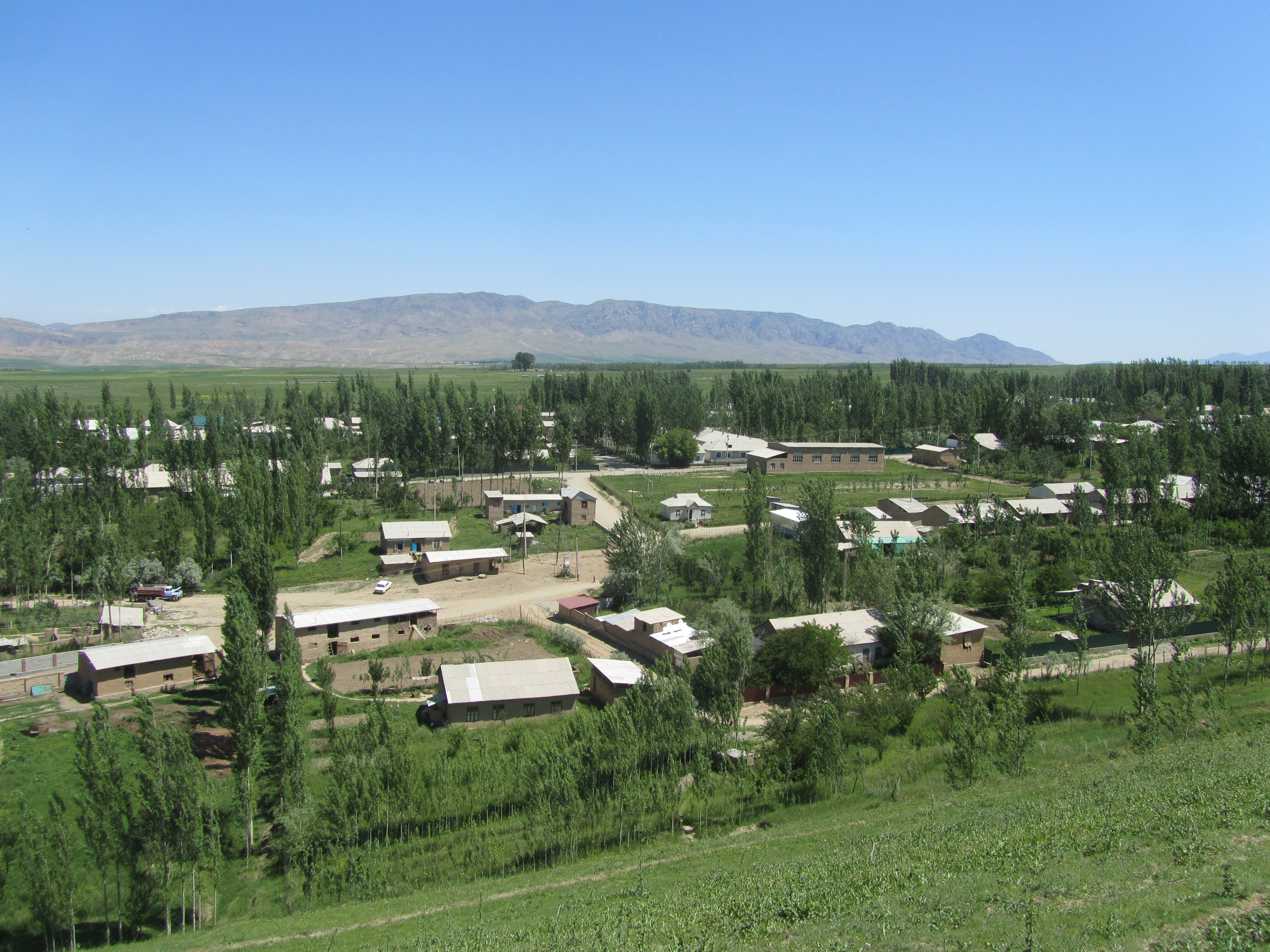 A general view of the village of Golbo. Leilek District, Kyrgyzstan.